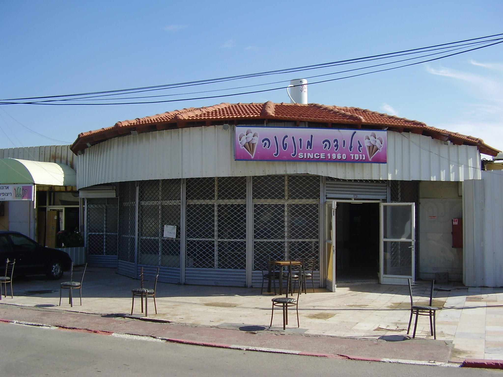 the legendary montana icecream in tel aviv גלידה מונטנה במגרשי התערוכה בתל אביב